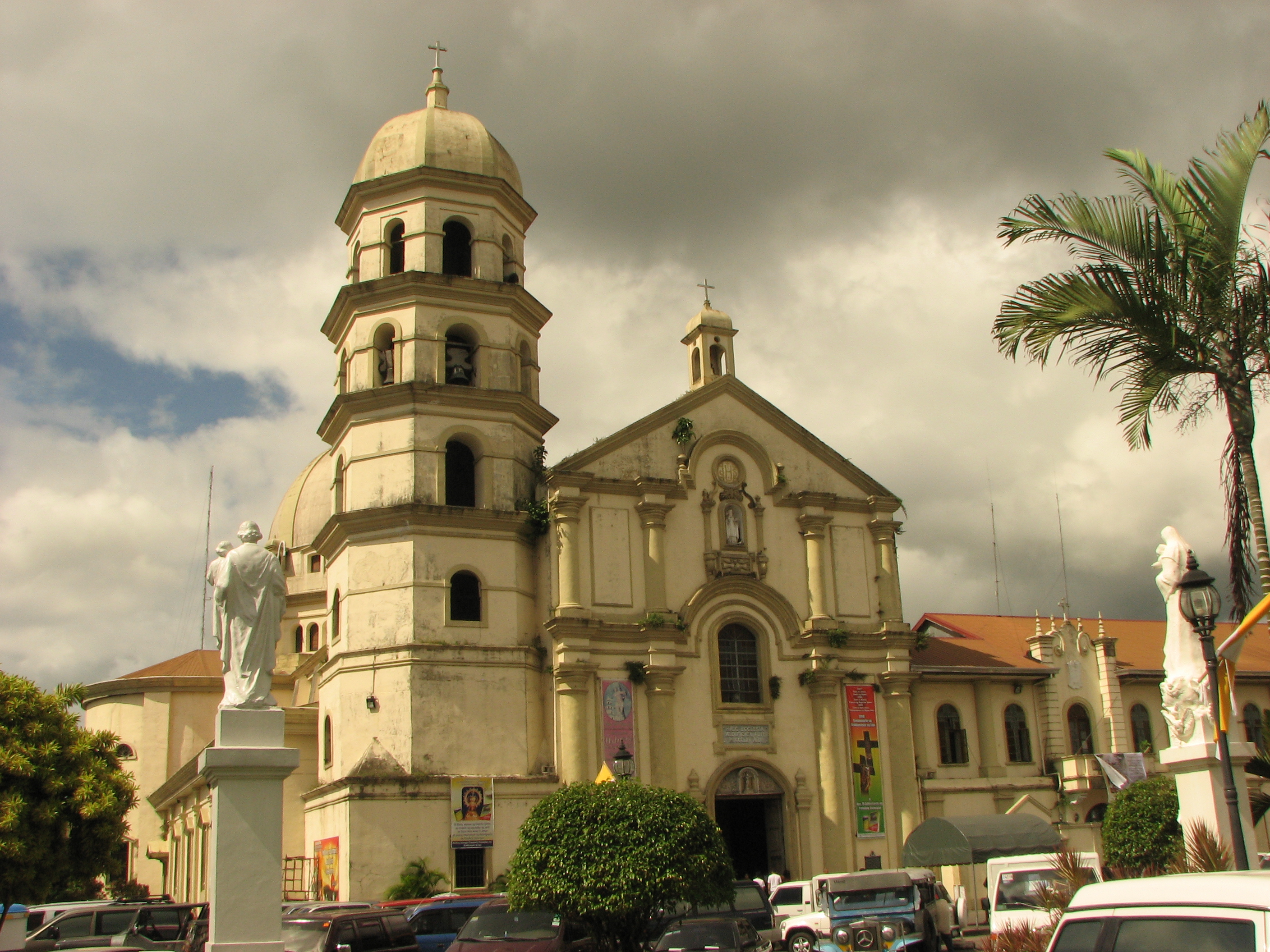 Facade and bell tower of the Metropolitan Cathedral of Saint Sebastian. In the Poblacion district of Lipa City, Batangas province, the Philippines.